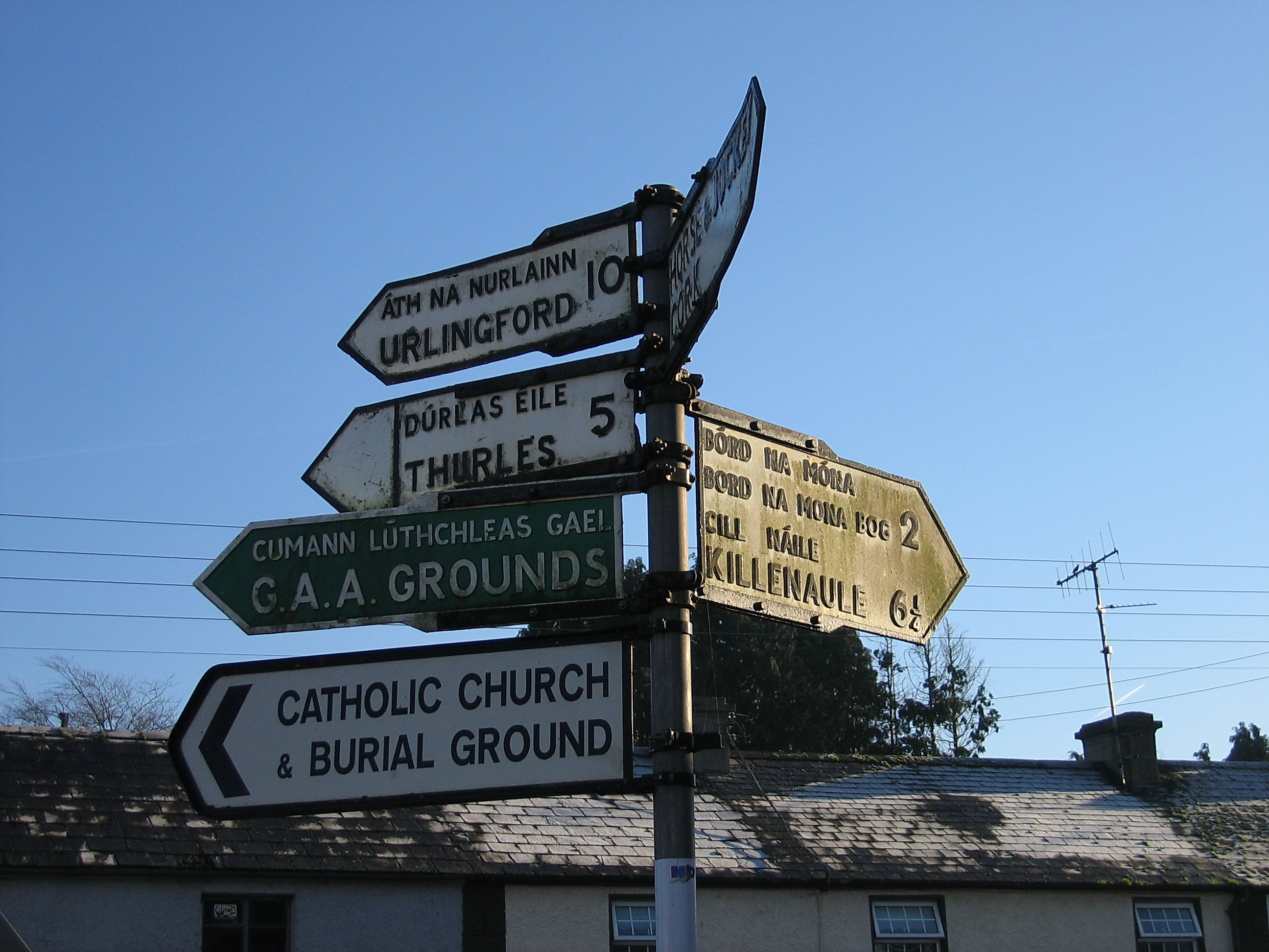 Littleton's heritage signage!